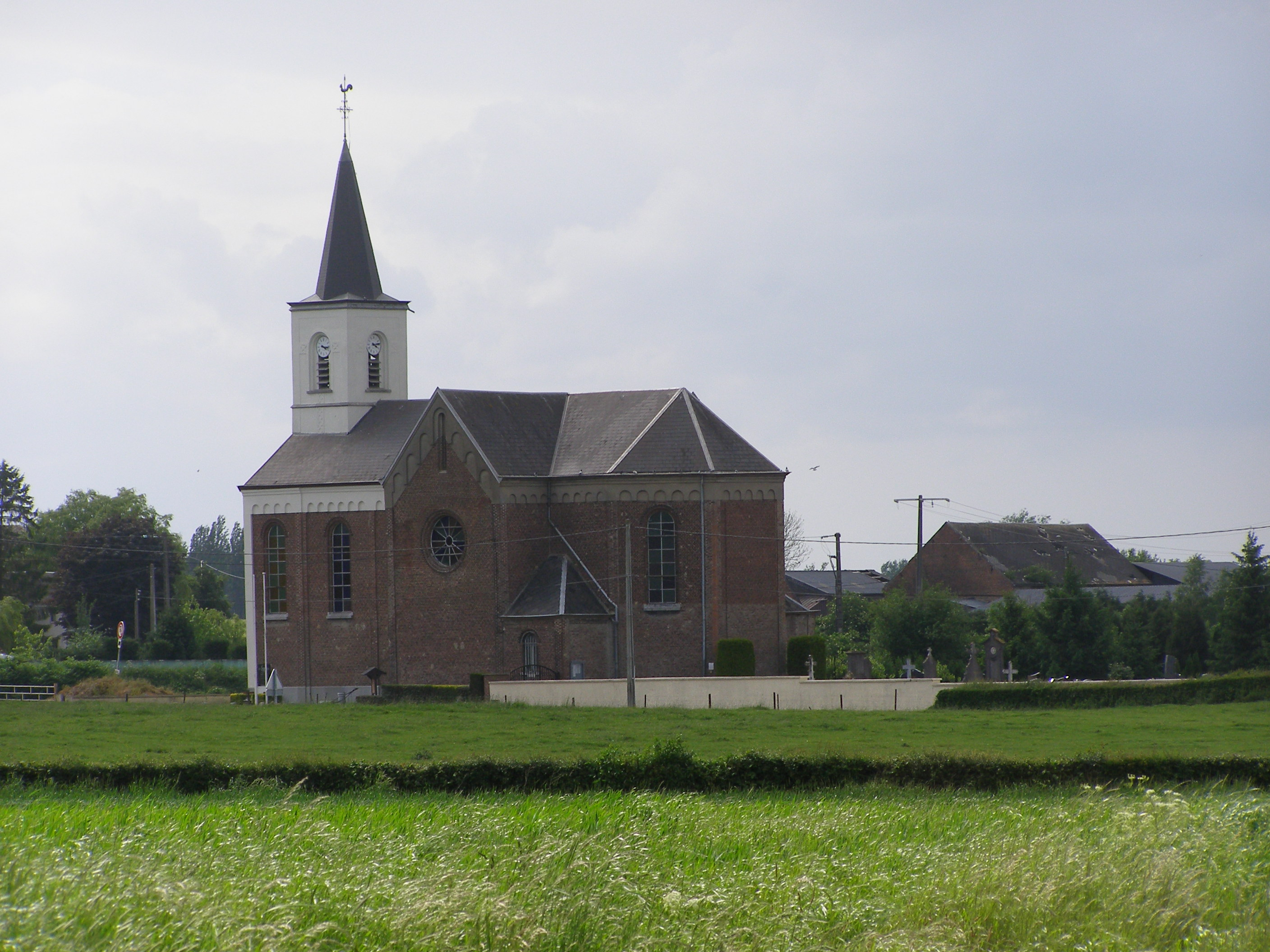 The church.